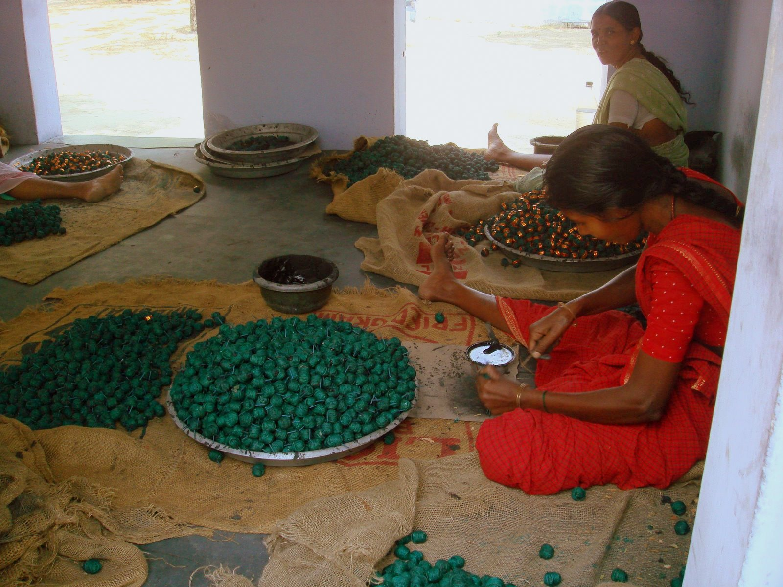 A woman in the making of bomb shells.